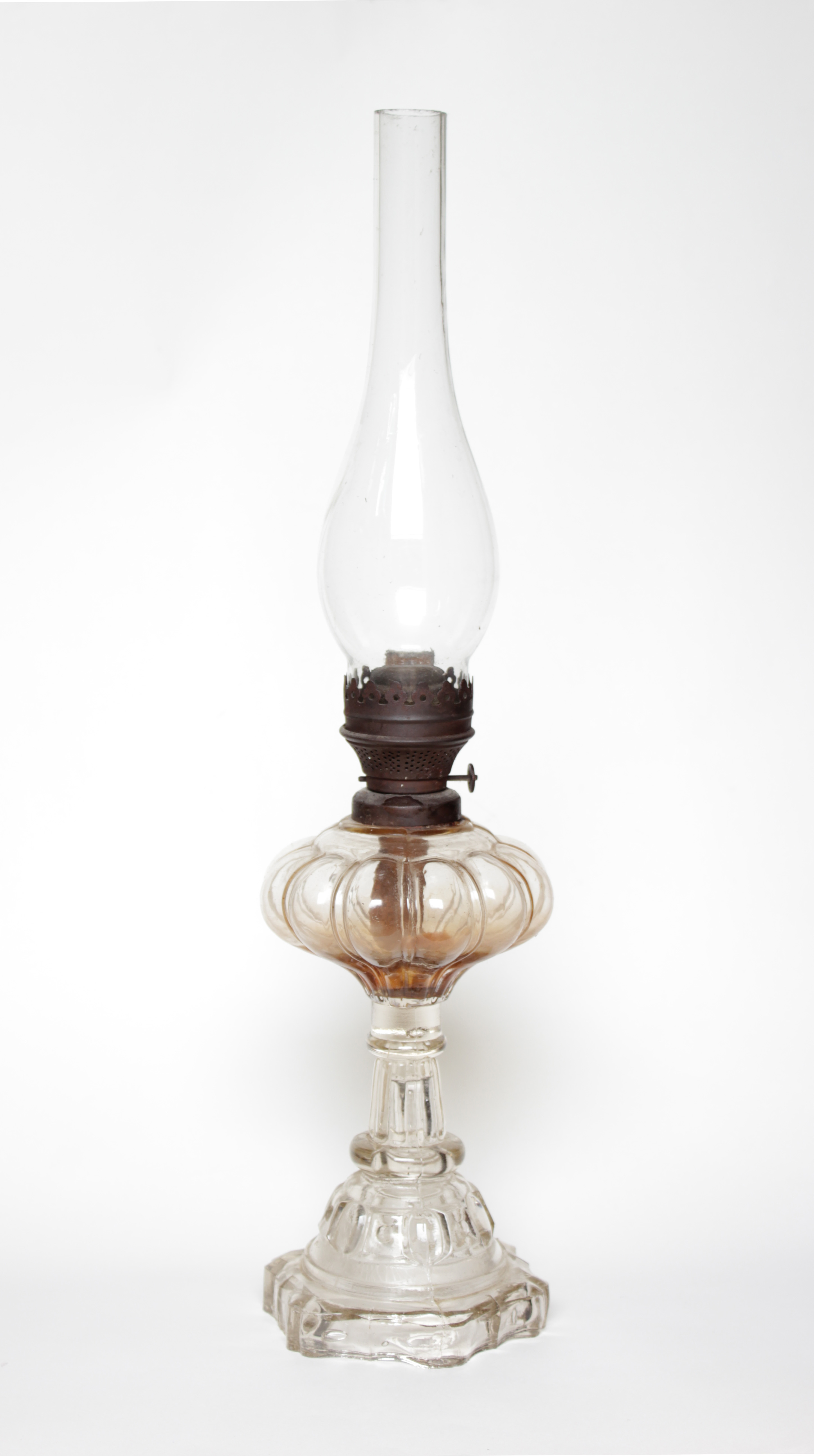 Kerosene lamp.